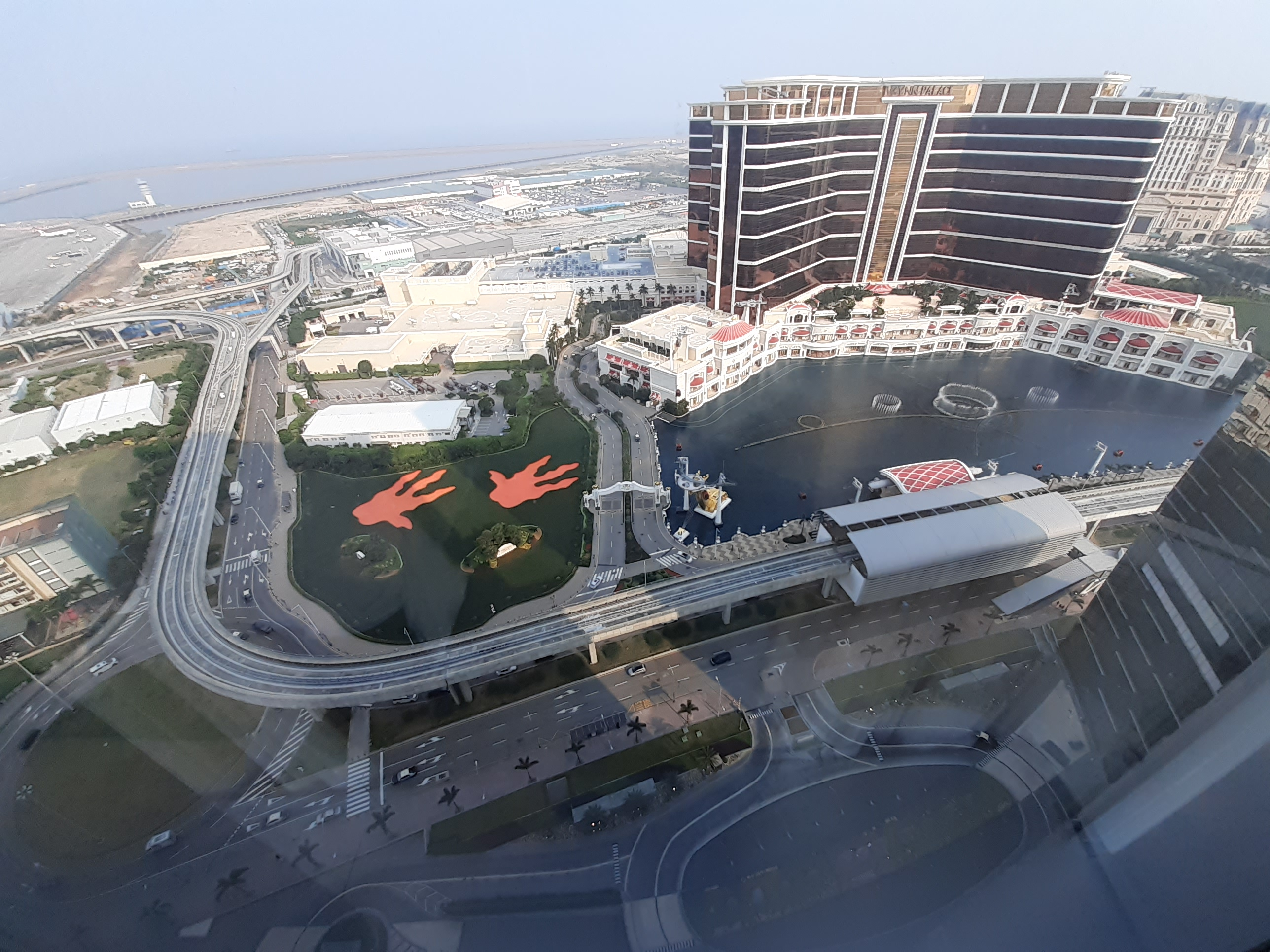 MC 澳門 Macau 路氹 Cotai Strip 君悅酒店 Grand Hyatt Hotel room view 體育館大馬路 Avenida da Nave Desportiva Wynn Palace in November 2019